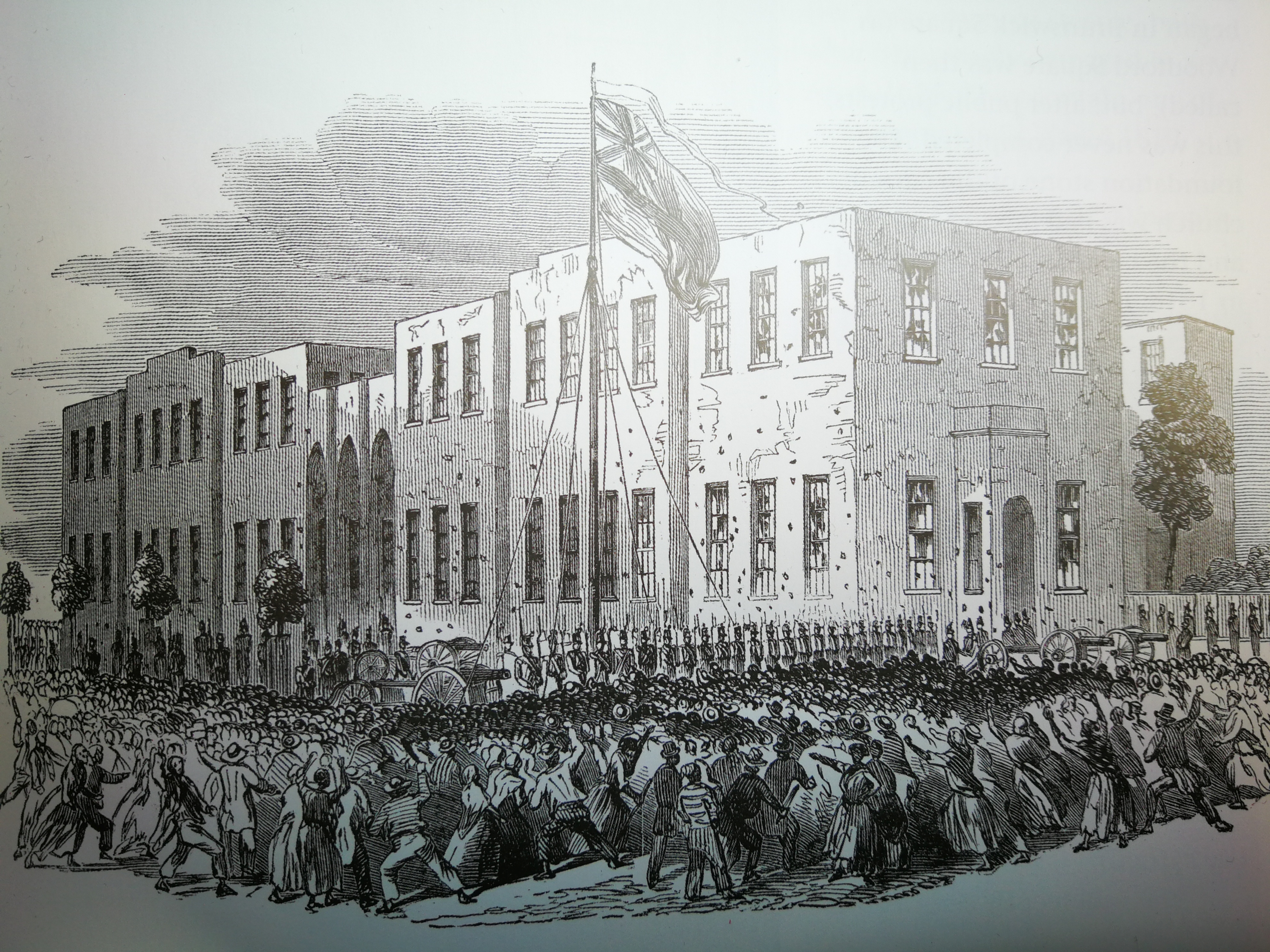 Government buildings (later Red House), Port of Spain, Trinidad and Tobago, during the Riot of 1849. Drawing by Michel-Jean Cazabon, 1849, for London Illustrated News.